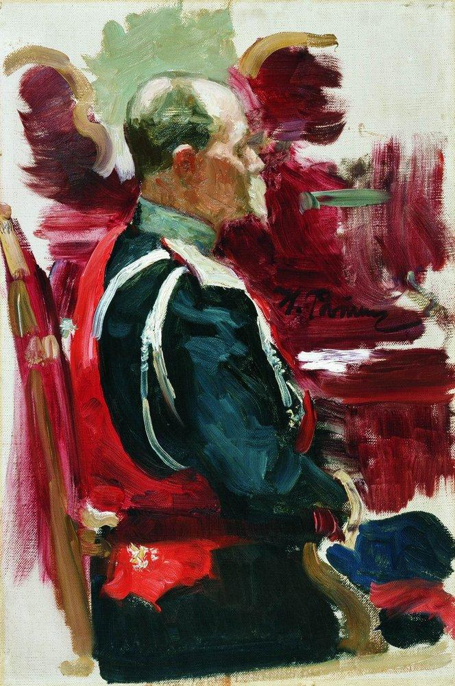 Study for the picture.